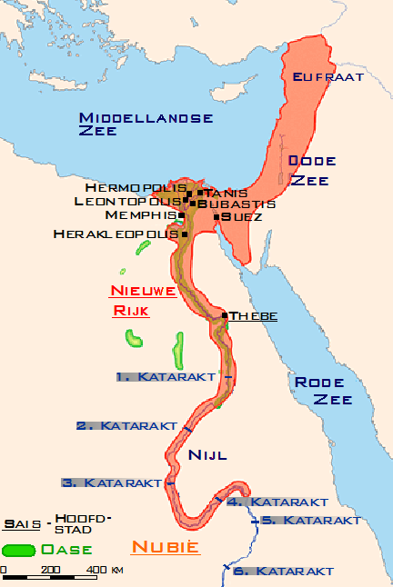 Expansion of Egypt during the New Empire. Map is the work of German user WEBMASTER.